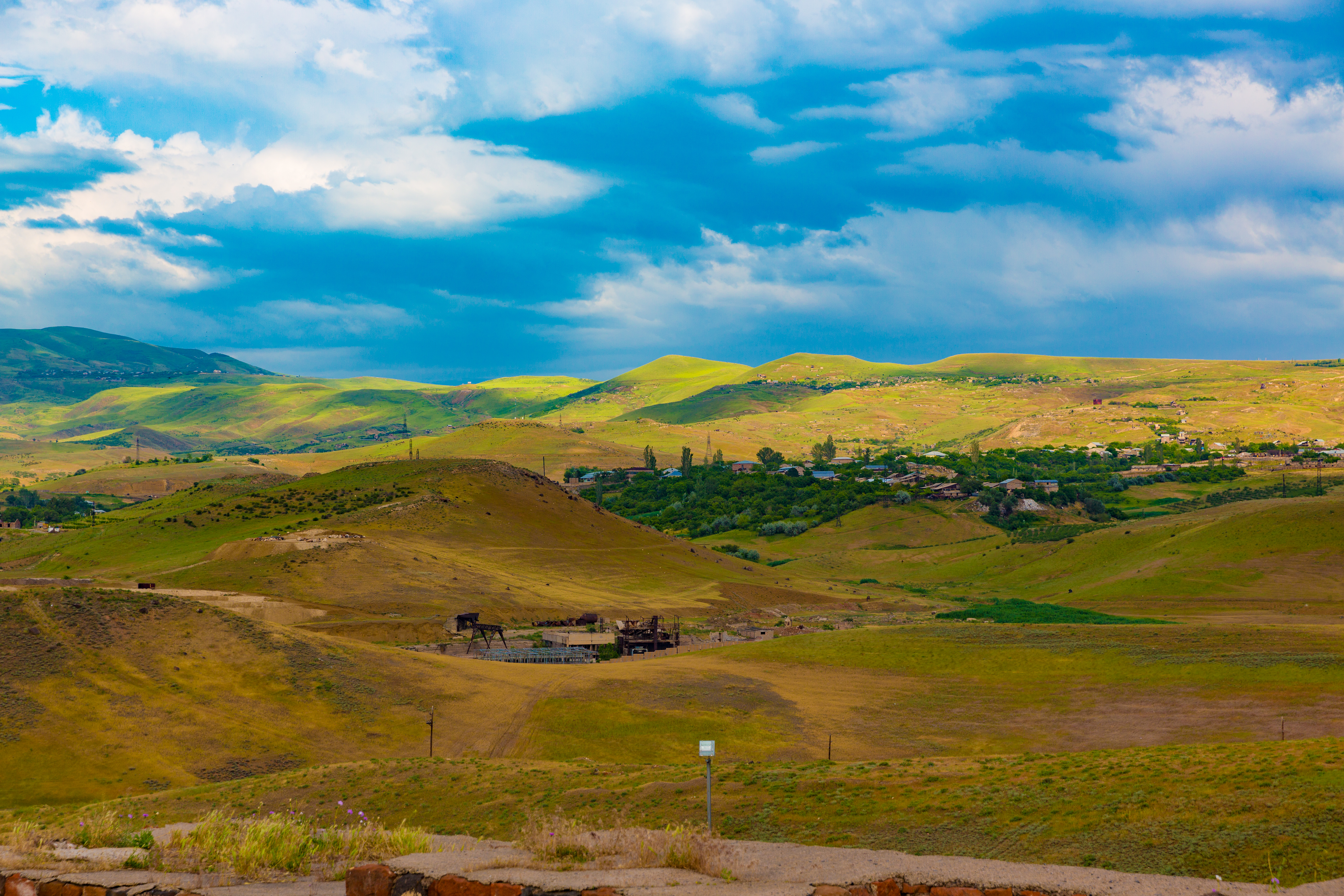 Verin Jrashen, Erebuni district, East of Yerevan, June 2016